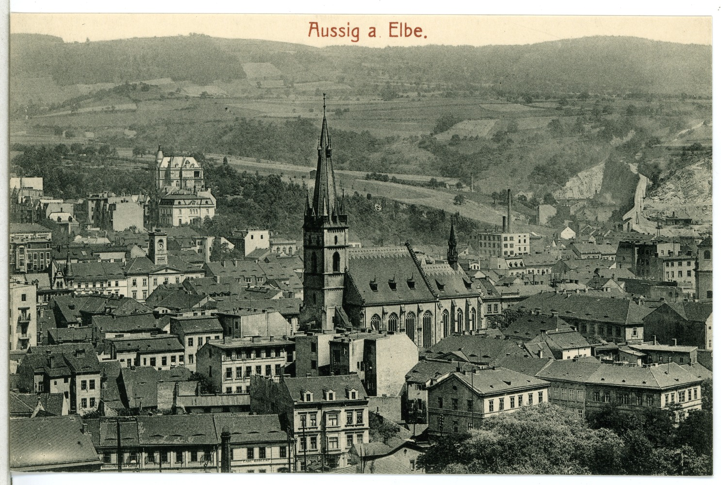 This postcard is from publisher Brück & Sohn in Meißen ( This postcard has a unique number 12349 and is available in a higher resolution at the publisher. This images was uploaded in a cooperation project between Wikipedians and the publisher.